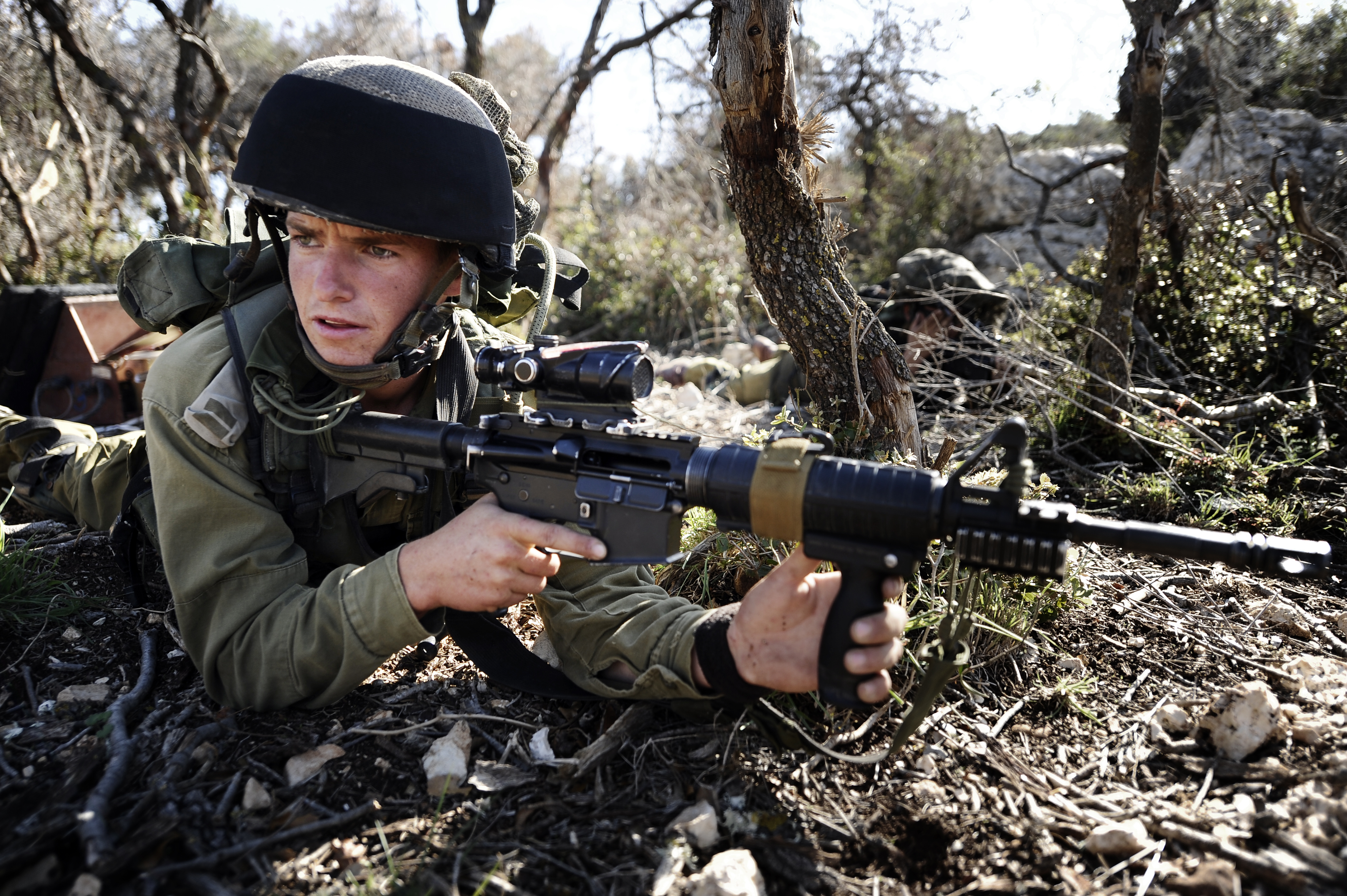 November 9, 2011 Soldiers of the Reconnaissance Battalion of the "Nachal" Brigade conducted a series of "commando" training exercises in northern Israel, which included training in an entangled environment. Every Infantry brigade has its Reconnaissance Battalion, composed of special companies trained especially for their specific tasks. Photo by Sgt. Ori Shifrin, IDF Spokesperson Unit. Click here to read about the first Gar'in Program Ethiopian officer of the Nachal Brigade. The Israel Defense Forces Facebook page The Israel Defense Forces blog Follow us on Twitter